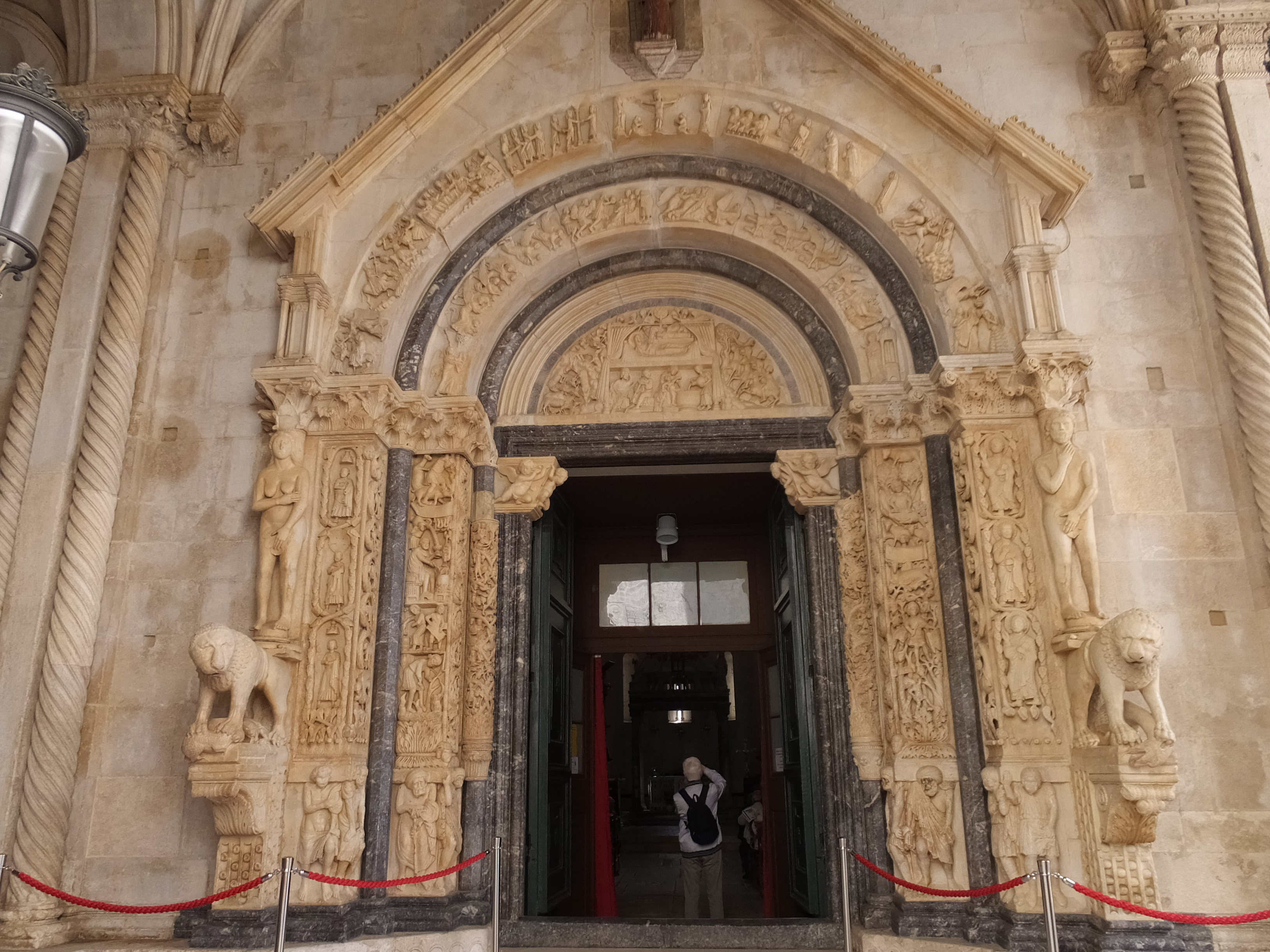 Cathedral of Saint Lawrence 聖勞倫斯大教堂